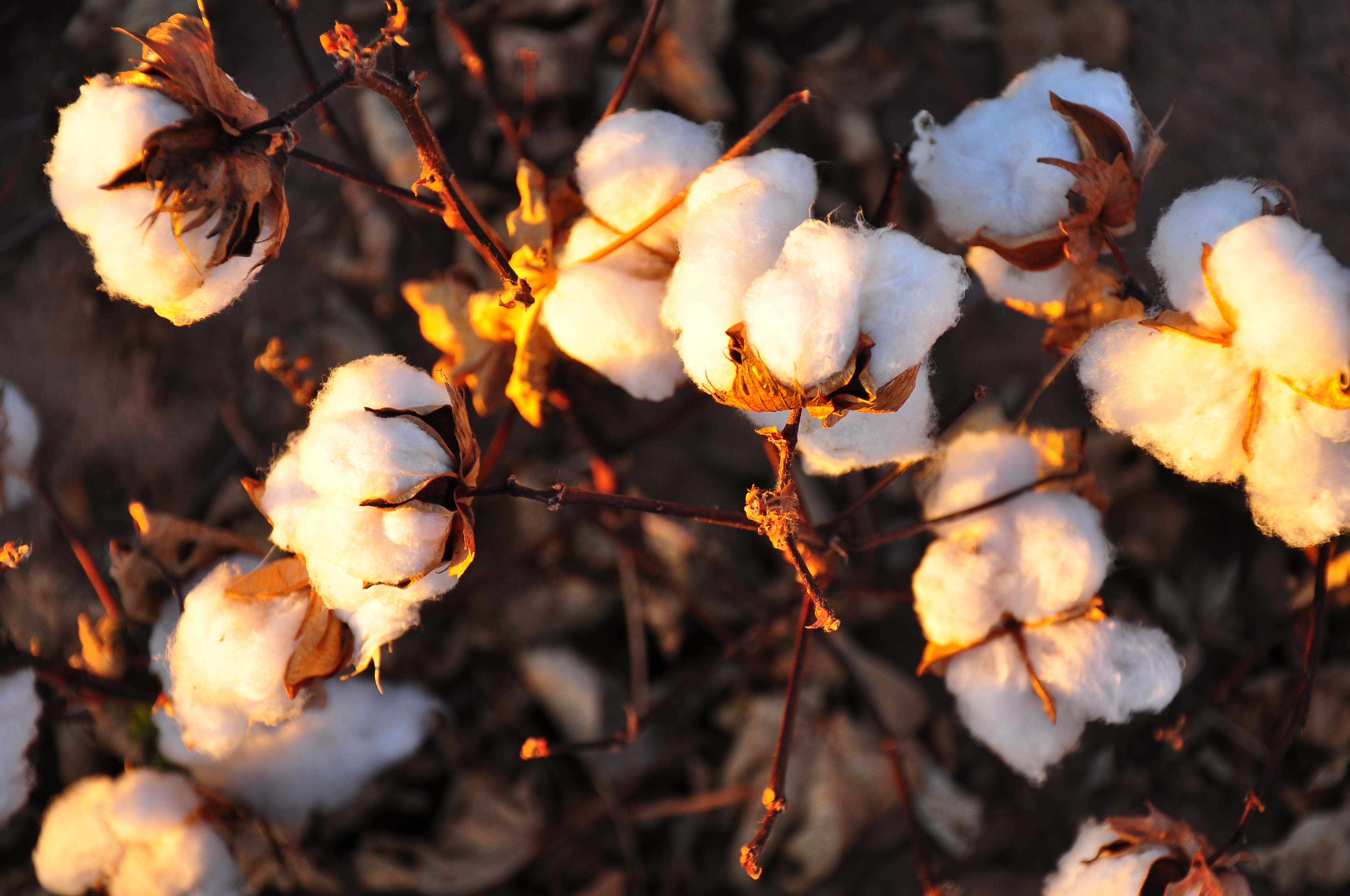 A cotton field (somewhere in the USA presumably)